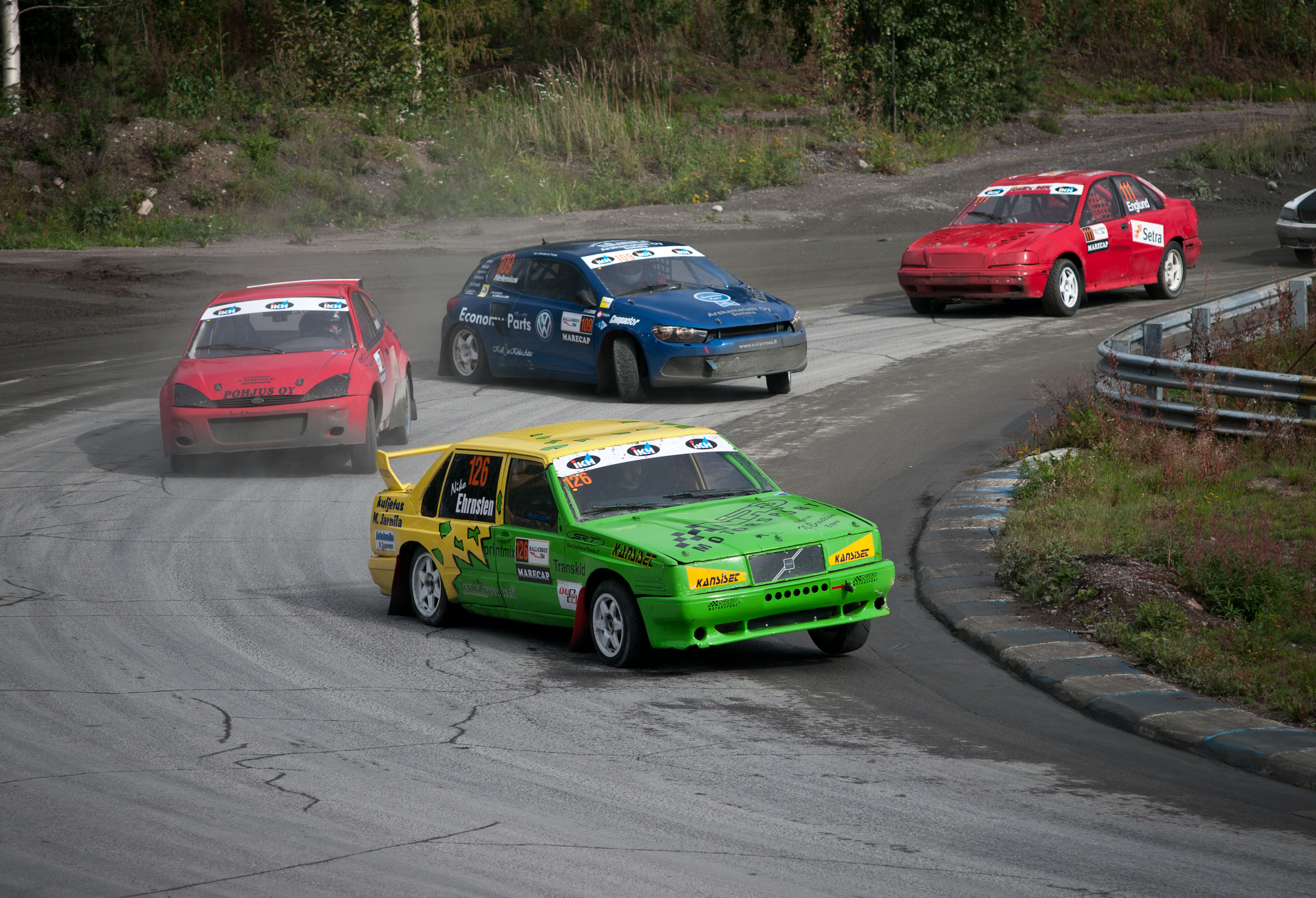 SRC class in Finnish Rallycross Championship in Hyvinkää. Niklas Ehrnsten, Jari Järvenpää, Peter Helenius and Lars Englund.